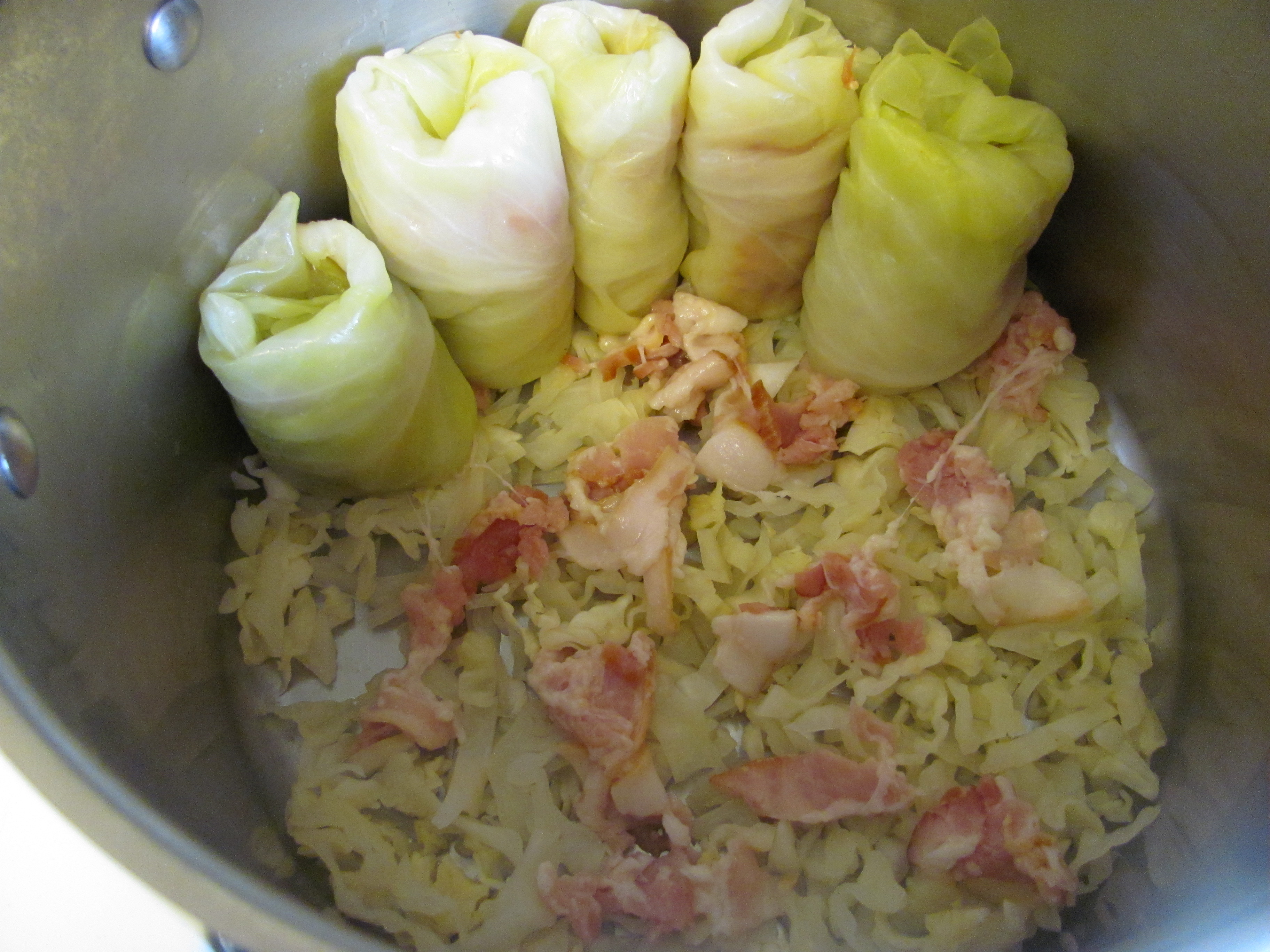 Töltött káposzta előkészítése a főzéshez